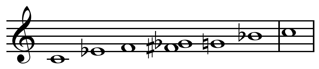 Hexatonic blues scale on C: Blues scale as minor pentatonic plus flat-5th/sharp-4th.